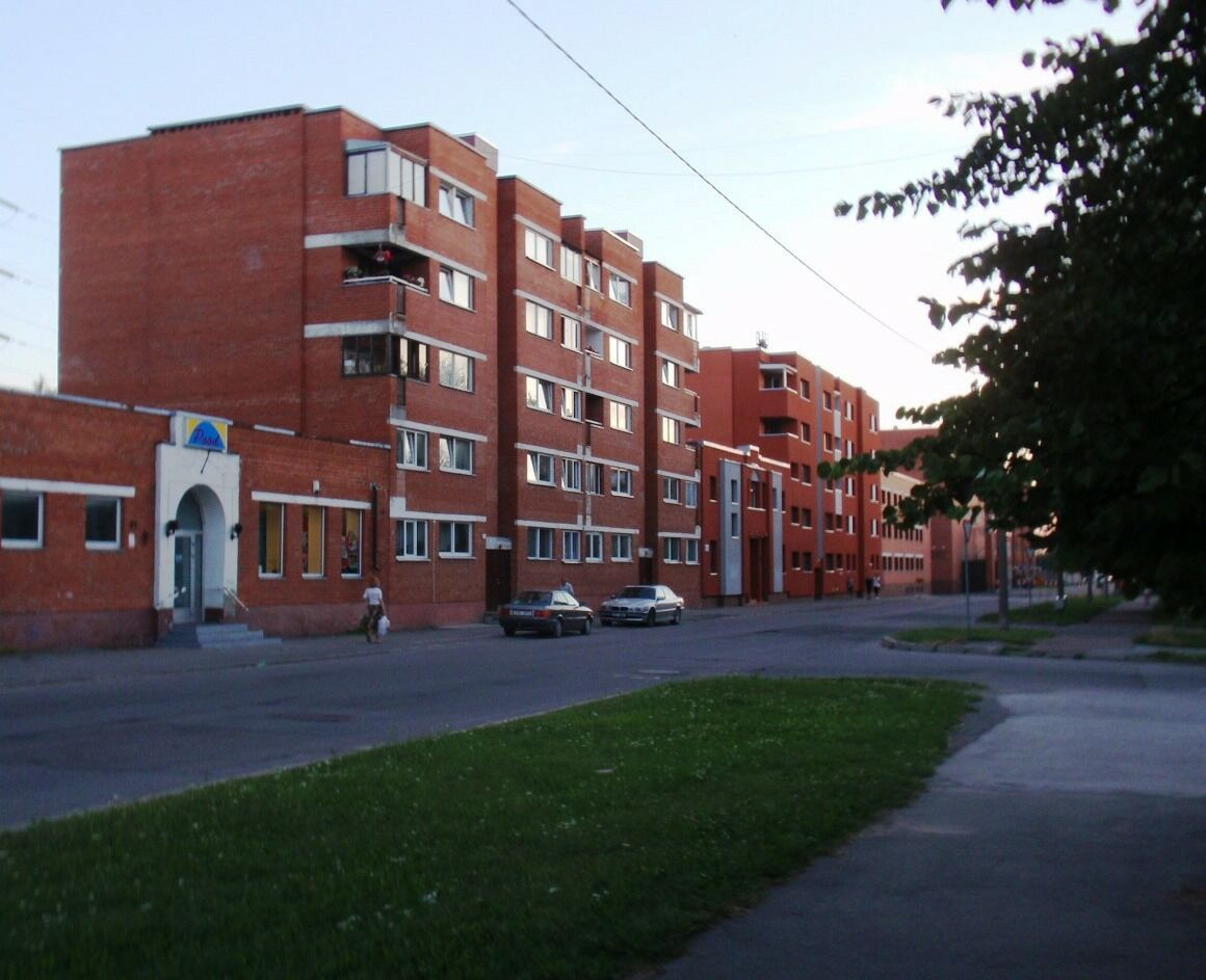 Apartment buildings on Puhangu street, Pelguranna, Tallinn.